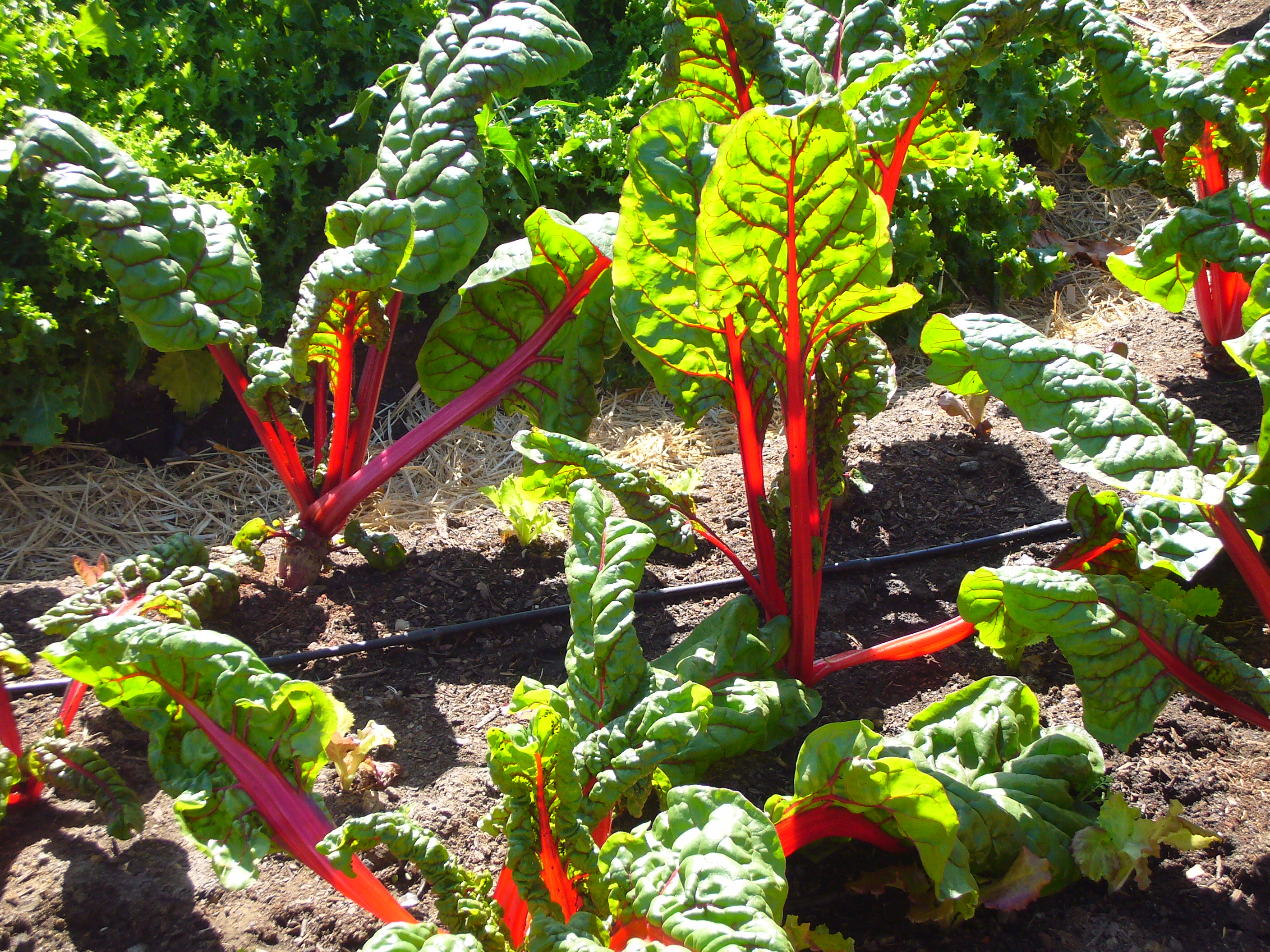 Red Chard growing in the garden of Slow Food Nation